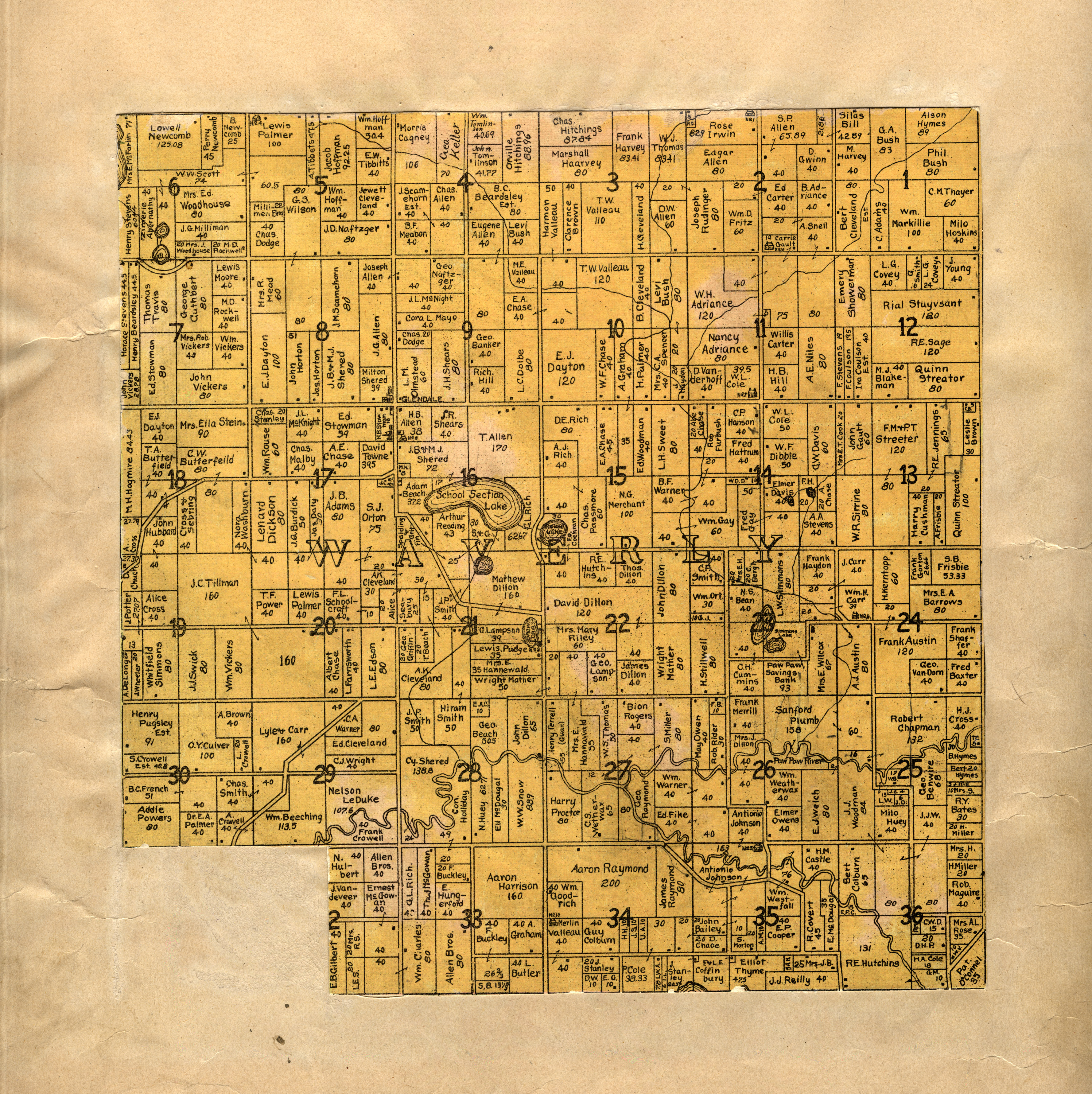 Digital scan of the Waverly Township portion of a larger 1906 map of Van Buren County, Michigan. The county map was cut into township-sized pieces, and the pieces were later found pasted into an 1895 atlas of Van Buren County, now in the collection of the Michigan State University Map Library. Each township map cut from the 1906 county map was pasted onto a blank page opposite the map of the corresponding township in the 1895 county atlas. Shows parcel boundaries and names of property owners, Public Land Survey System township and section numbering, roads, railroads, residences, schools, churches, municipalities, and water features. Print version was cut from map: Orton, M. K. A farm map of Vanburen County, Michigan / compiled from official records and local inspection by W.H. Goss, County Surveyor ; drawn by M.K. Orton. Rockford, Ill. : W.W. Hixson, [1906]. MSU Libraries catalog record